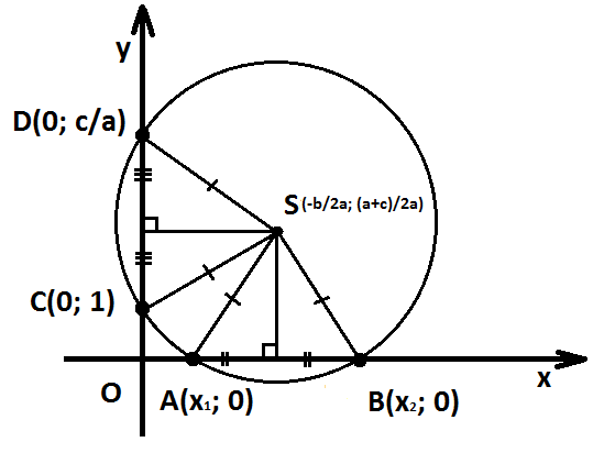 К. у.